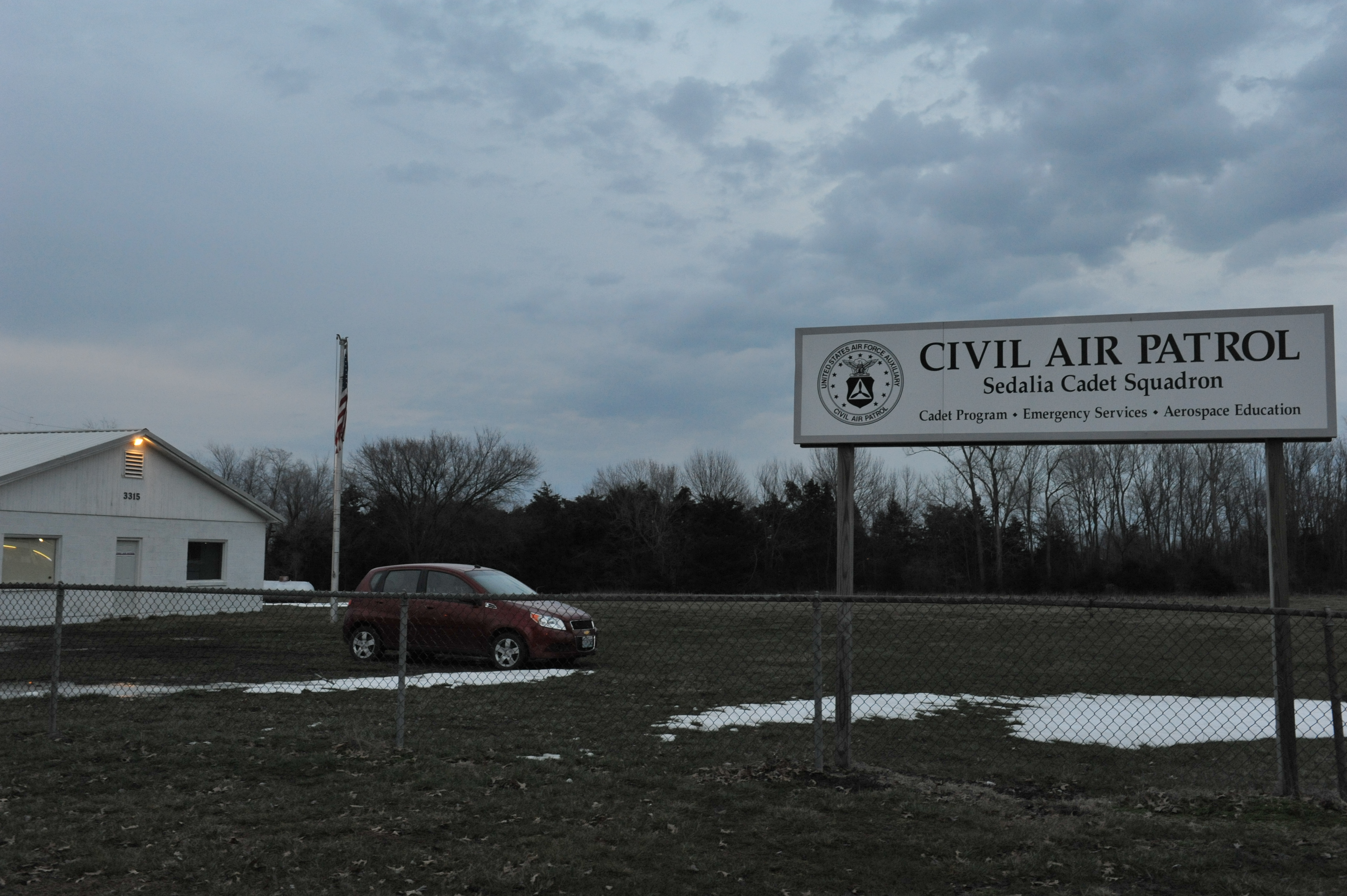 The Civil Air Patrol’s Sedalia Cadet Squadron is located at 3315 E. Broadway Blvd., in Sedalia, Mo., and currently has 12 cadets and seven adults who volunteer to make a positive difference in their community. (U.S. Air Force photo by Heidi Hunt/Released)